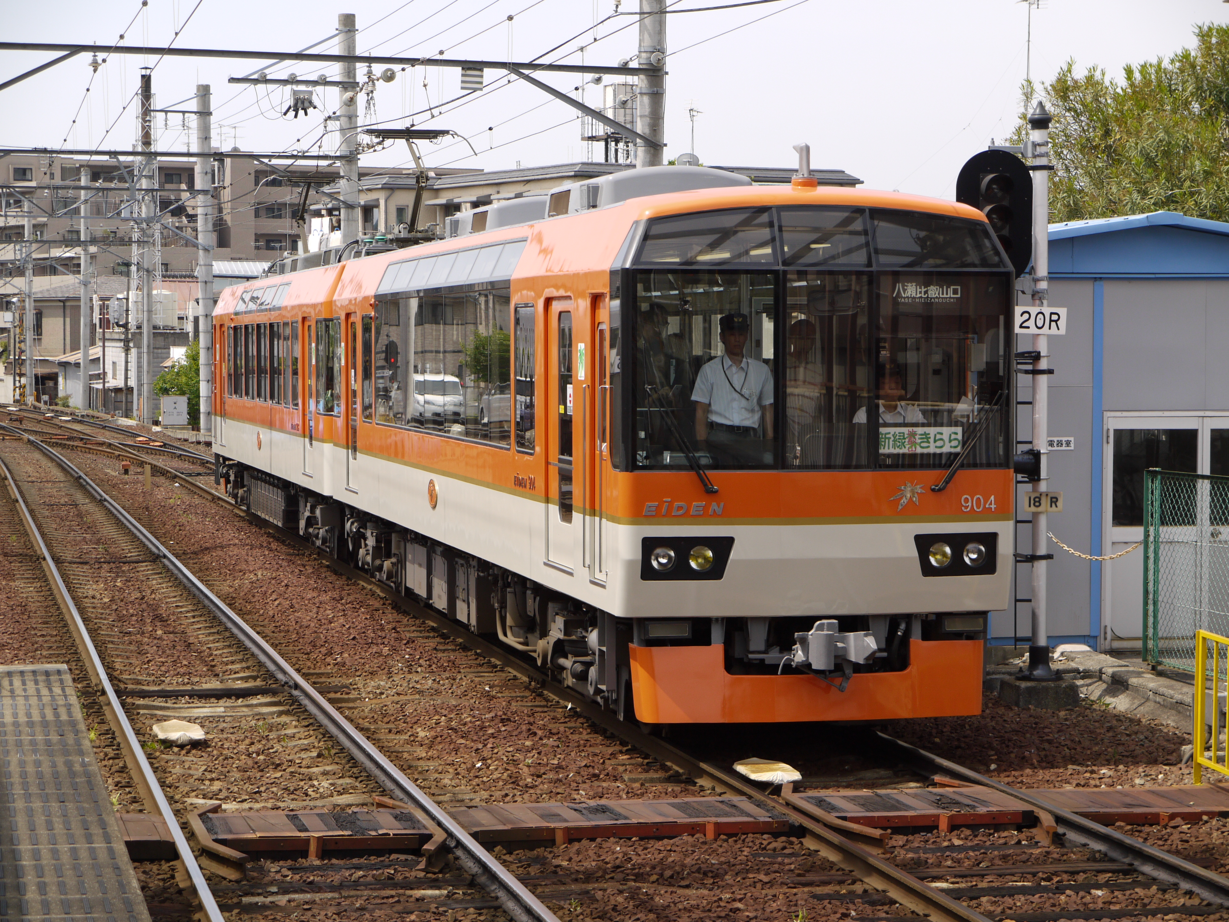 Eizan Electric Railway 900 series running as a train to Yase Hieizanguchi. While this type of train usually runs between Demachiyanagi and Kurama, it occasionally runs to Yase Hieizanguchi as special train in high sightseeing seasons.